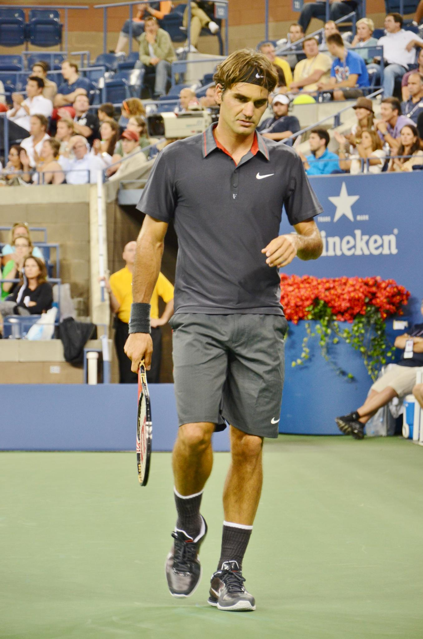 Roger Federer at the US Open 2011, 1st round